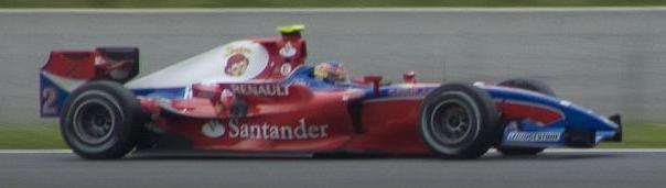 Bruno Senna driving for iSport International at the Circuit de Nevers Magny-Cours round of the 2008 GP2 Series season.